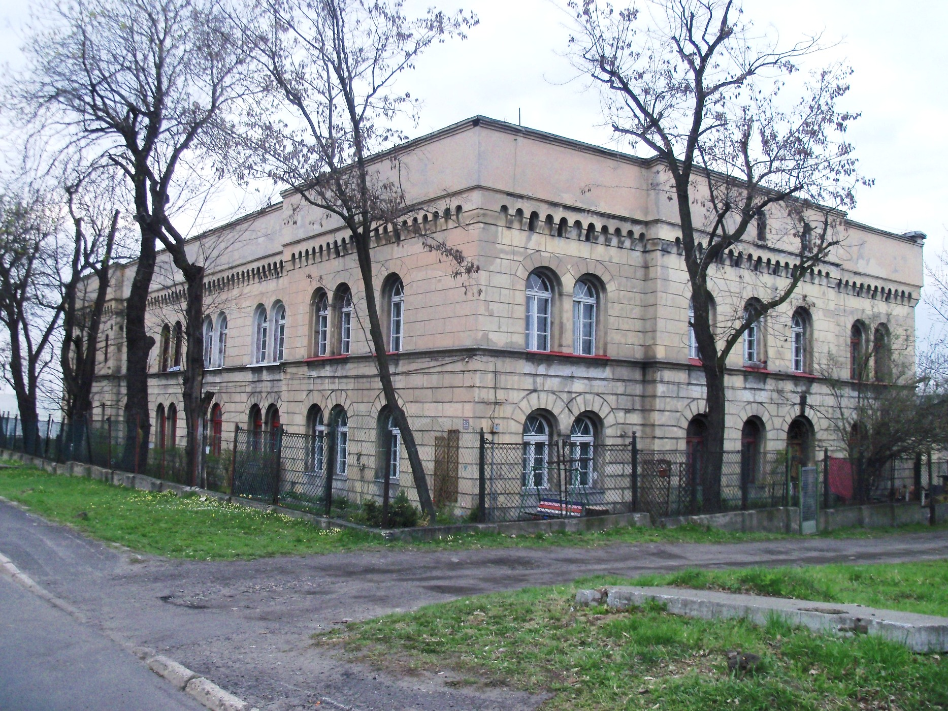 Prittwitz Castle in Katowice